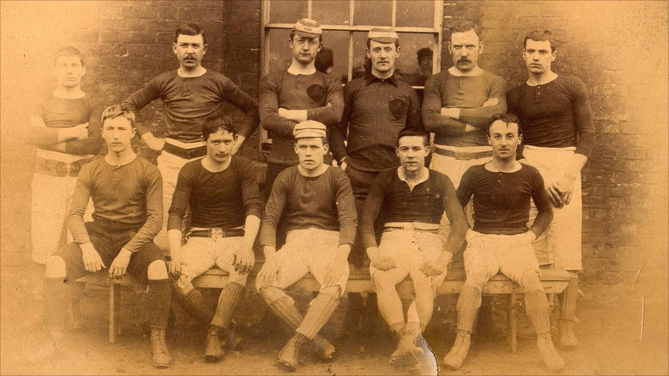 One of the first photos of the Wales national football team.